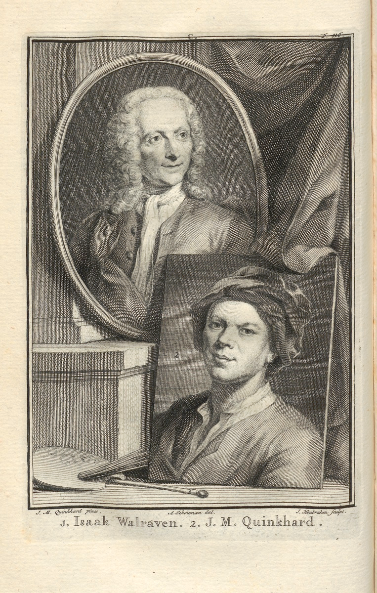 Isaak Walraven JM Quinkhard